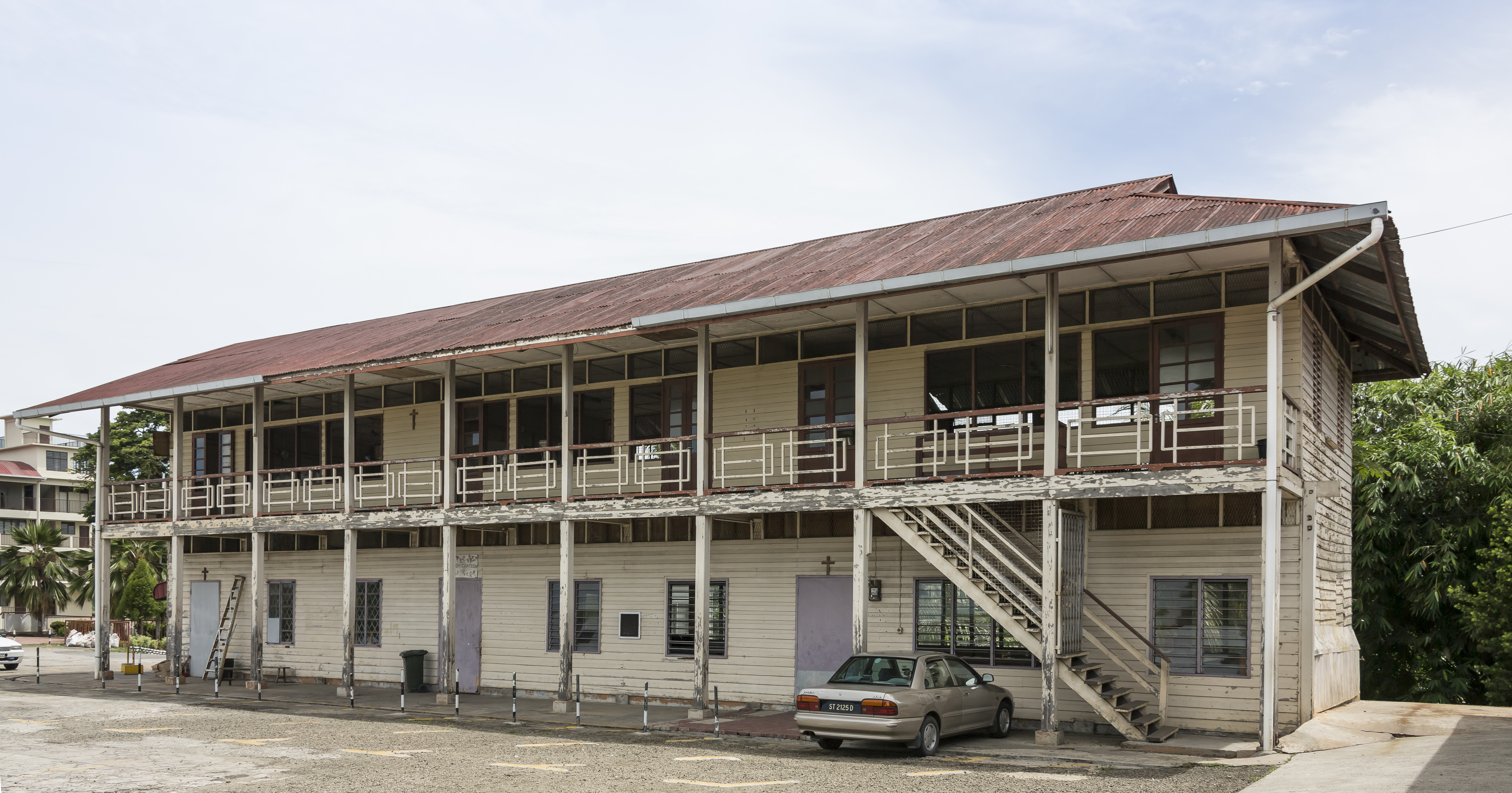 Tawau, Sabah: Holy Trinity Catholic School, founded by Rev. Stotterer in 1922